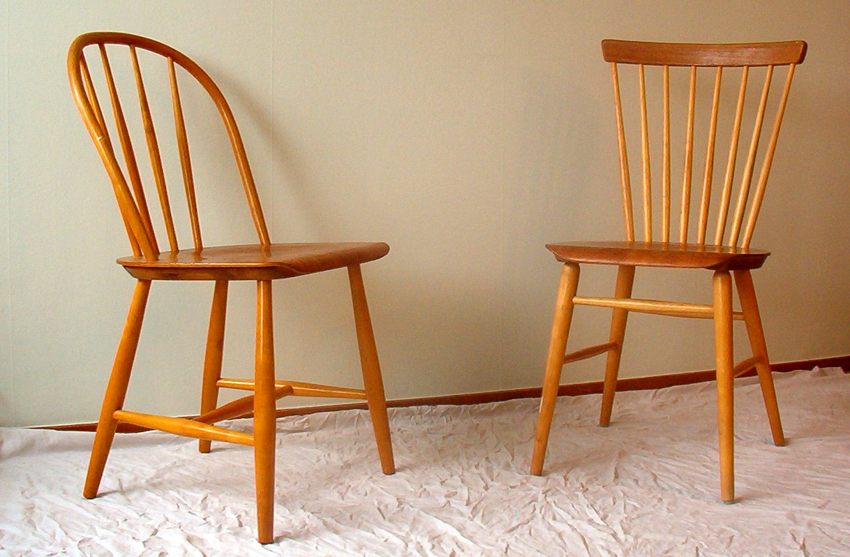 These types of chairs (Pinnstol in Swedish) are manufactured in great numbers in the Småland province; and even more so a hundred years ago. These chairs are found in almost any Swedish homes; and they hold for a century if carefully used. These two chairs are in my home. Date: of upload.